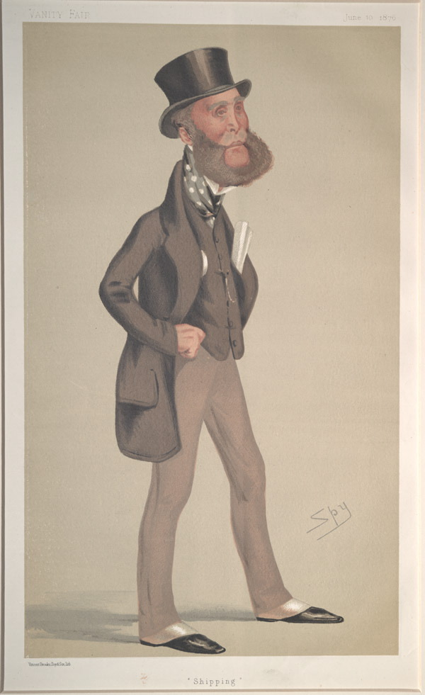 Statesmen No.226: Caricature of Lord Eslington. Caption reads: "Shipping"